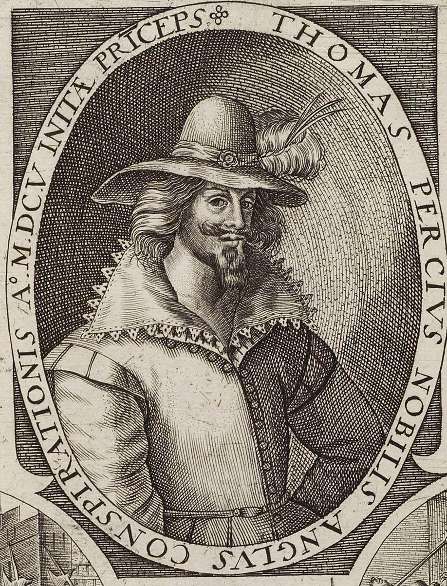 Thomas Percy, by Abraham Hogenberg, given to the National Portrait Gallery, London in 1916. This is a cropped version of the larger file. All images in this batch are listed as "unknown author" by the NPG, who is diligent in researching authors, and was donated to the NPG before 1939 according to their website.